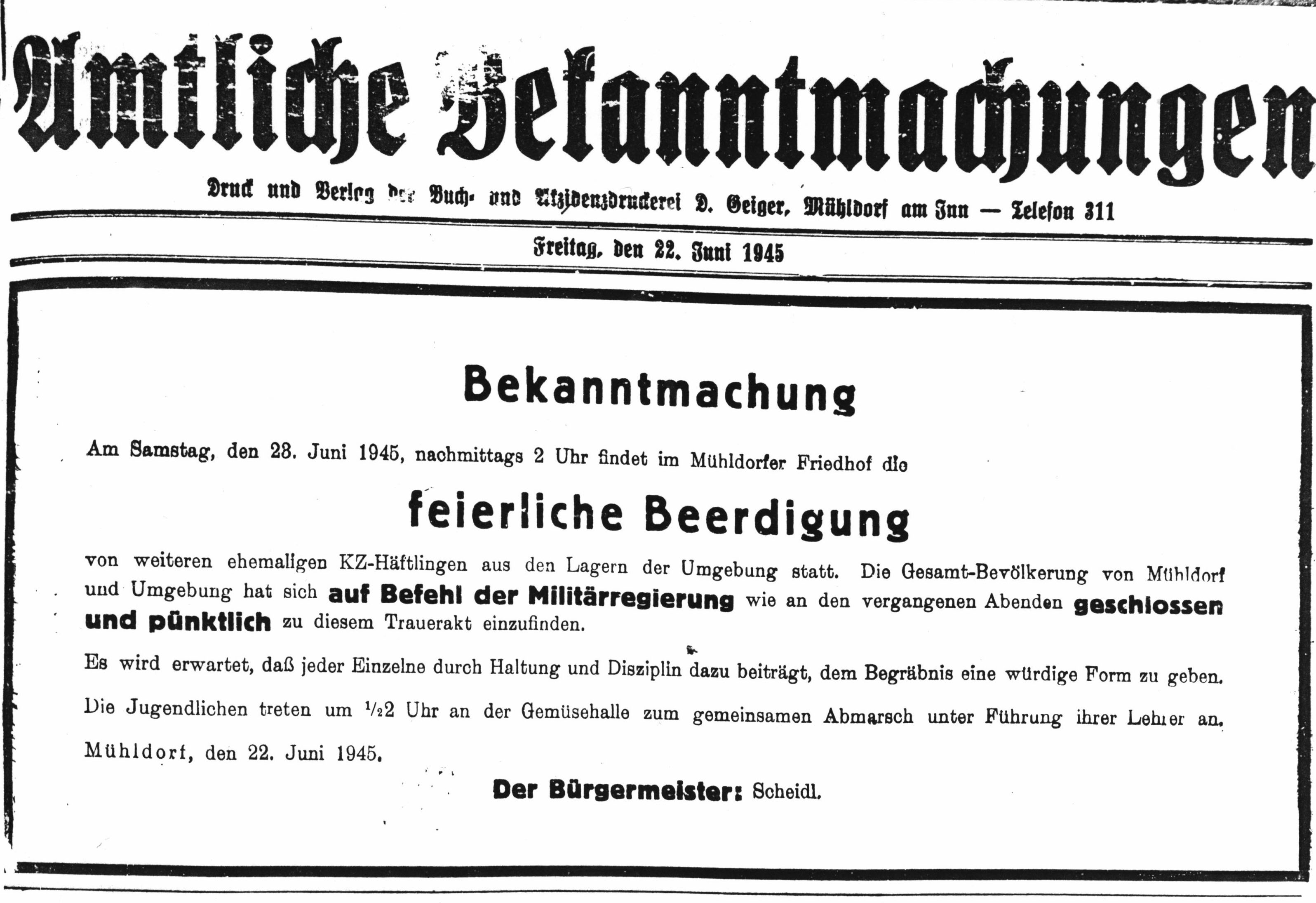 official announcement by mayor Scheidl concerning funerals of former prisoners of Muehldorf concentration camp